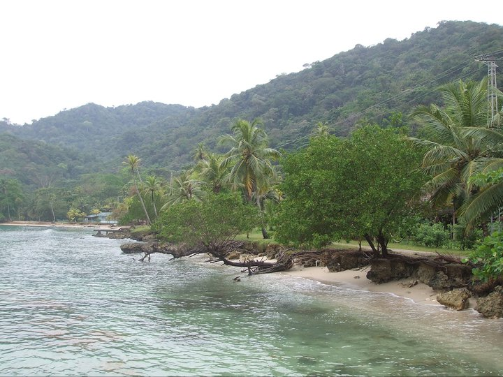 Sapzurro Beach (Colombia)